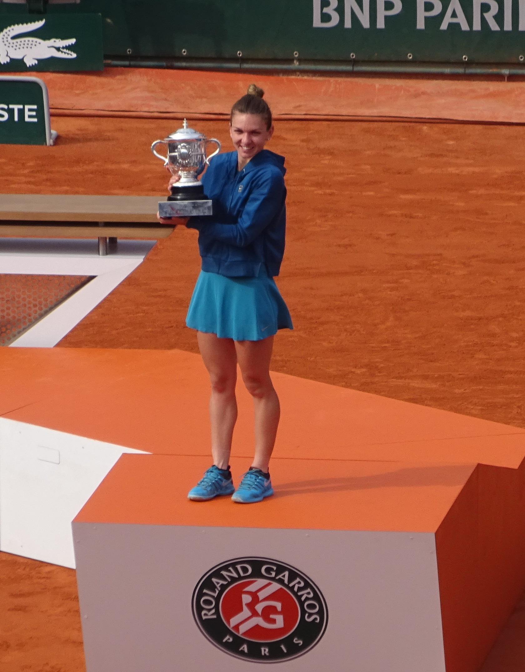 Simona Halep won her first grandslam singles title at the Roland Garros 2018